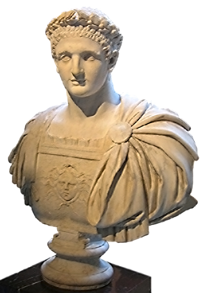 Bust of roman emperor Domitianus. Antique head, body added in the 18th century. Musée du Louvre (Ma 1264), Paris. Formerly in the Albani Collection in Rome.